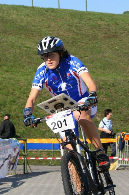 This work is free and may be used by anyone for any purpose. If you wish to use this content, you do not need to request permission as long as you follow any licensing requirements mentioned on this page.